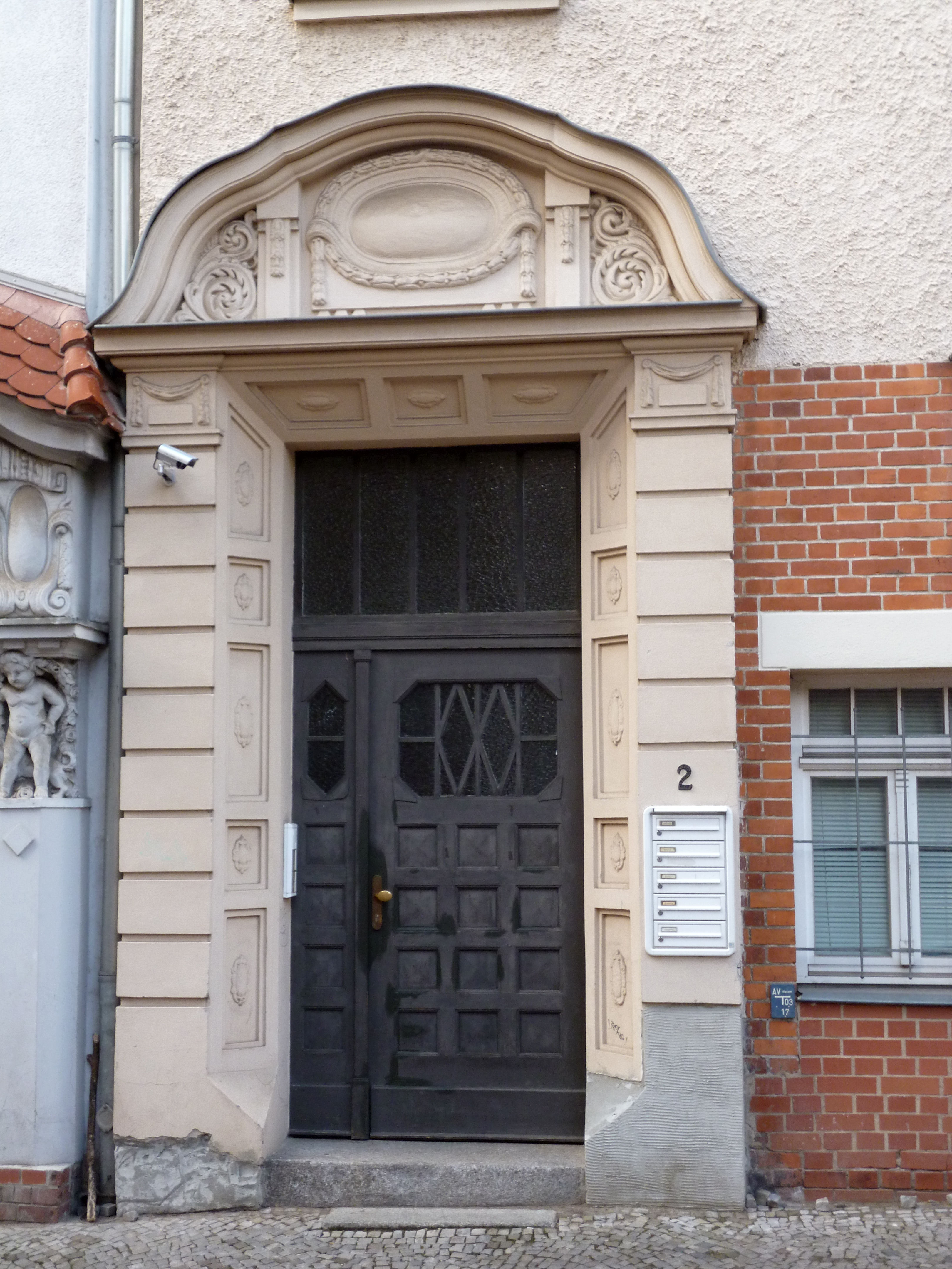 Portal of the house No. 2 Graefestrasse in Halle (Saale)